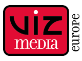 This is the logo of VIZ Media Europe.